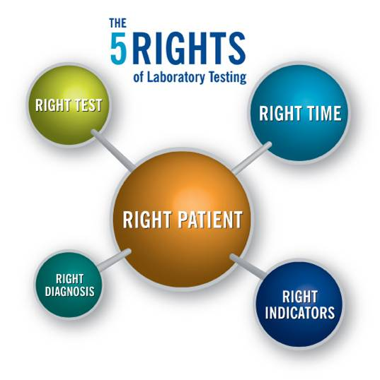 This image is to Support and describe the Five Rights of laboratory Testing to be used as an informational Image on Entries related to Five Rights.